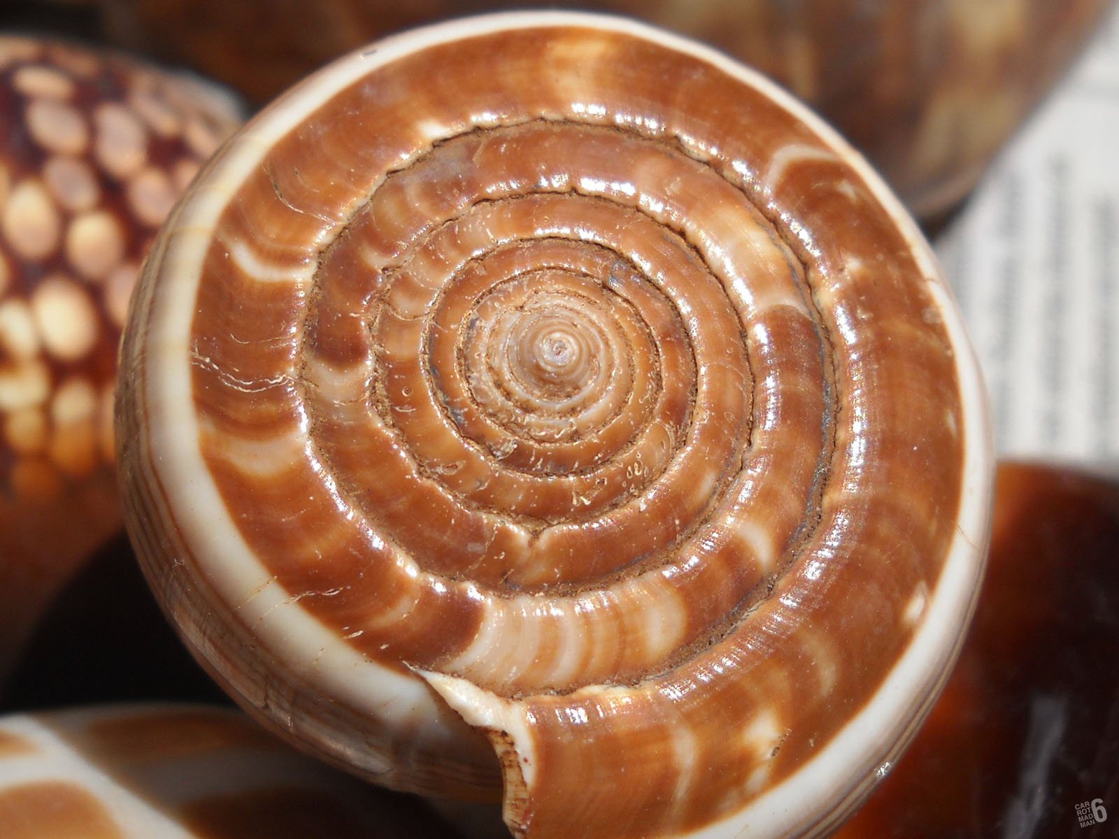 Spiral mollusc shell